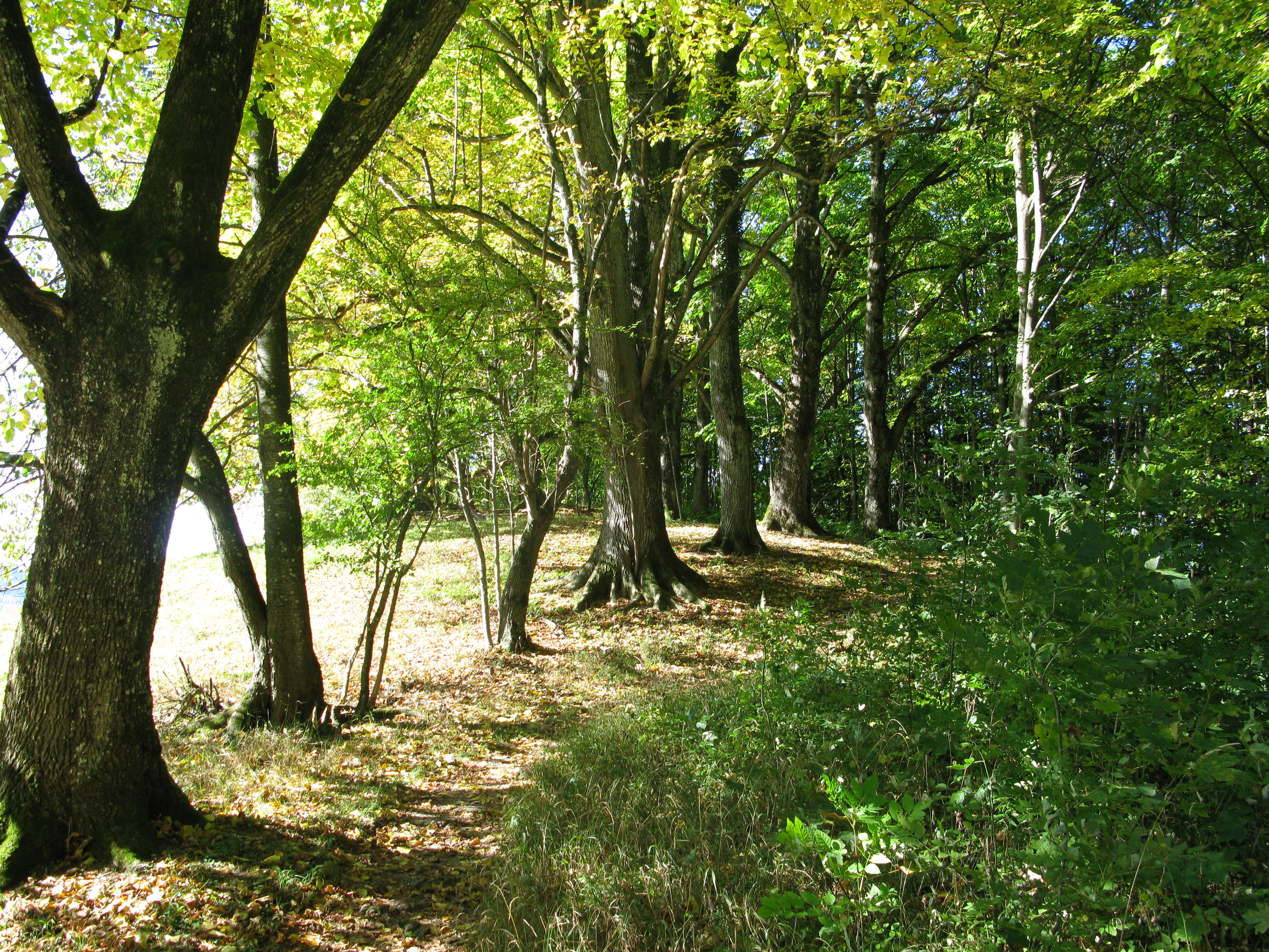 The park of the Georg-von-Vollmar-Akademie on the Aspensteinbichl in Kochel am See, Upper Bavaria, Germany.